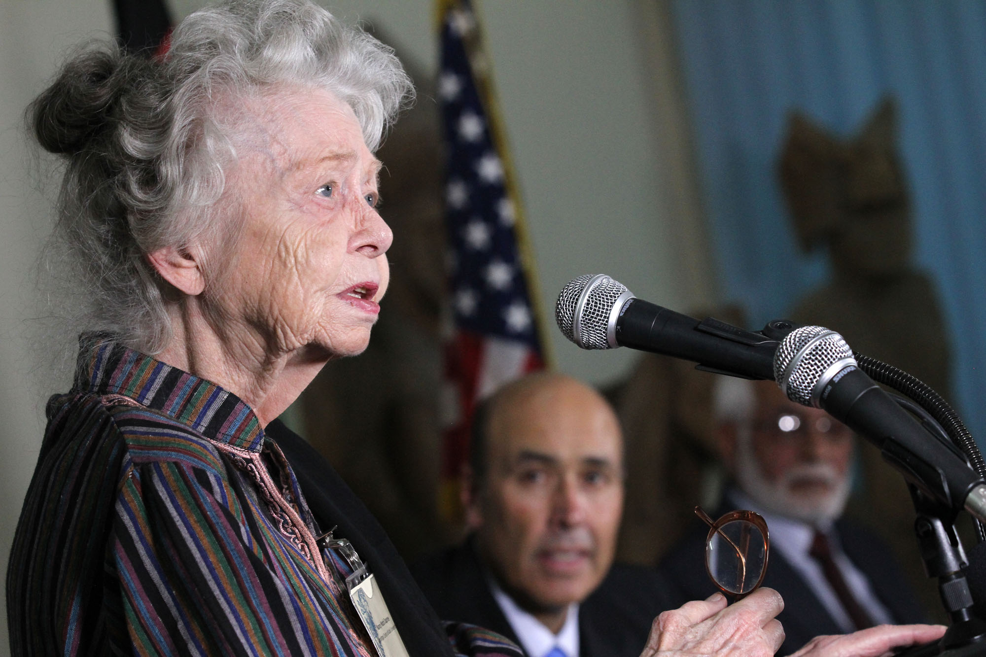 Director of Kabul University’s Afghanistan Center Nancy Hatch Dupree, left, gives a speech during the International Architectural Ideas Competition at the National Museum of Afghanistan. The ceremony was held at the National Museum’s Ethnography Hall on Monday, Sept. 17, in Kabul. (Photo by U.S. State Department)